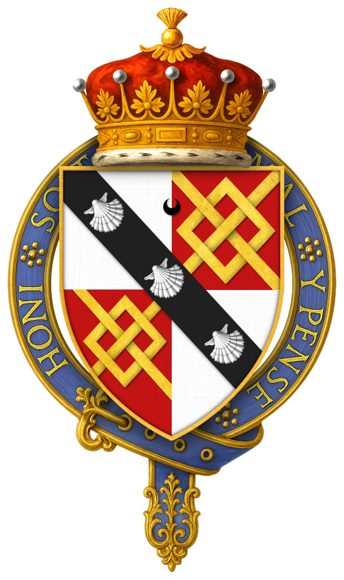 Shield of arms of Frederick Spencer, 4th Earl Spencer, KG, CB, PC